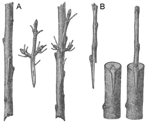 cutout of image:Zraz.png, showing rind grafting